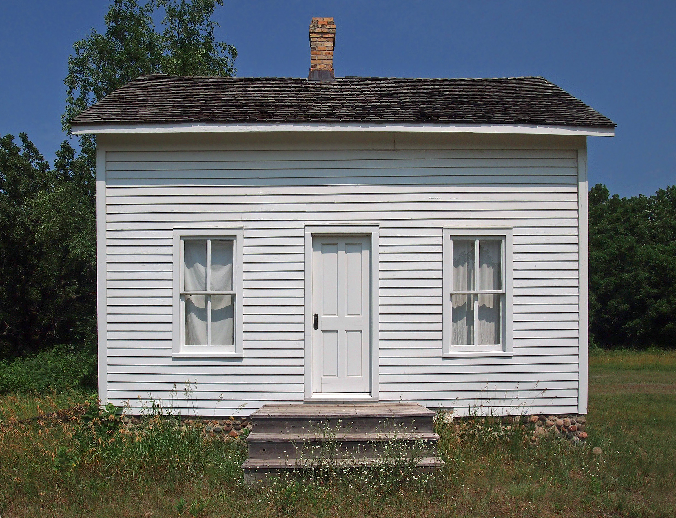 Herbert M. Fox House, Sherburne History Center, Becker, Minnesota, USA. Viewed from the south-southeast, corrected for tilt distortion.